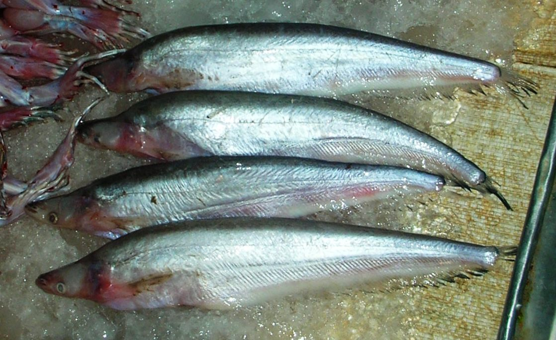 Phalacronotus apogon (ปลาเนื้ออ่อน) at the market in Bang rak, Bangkok